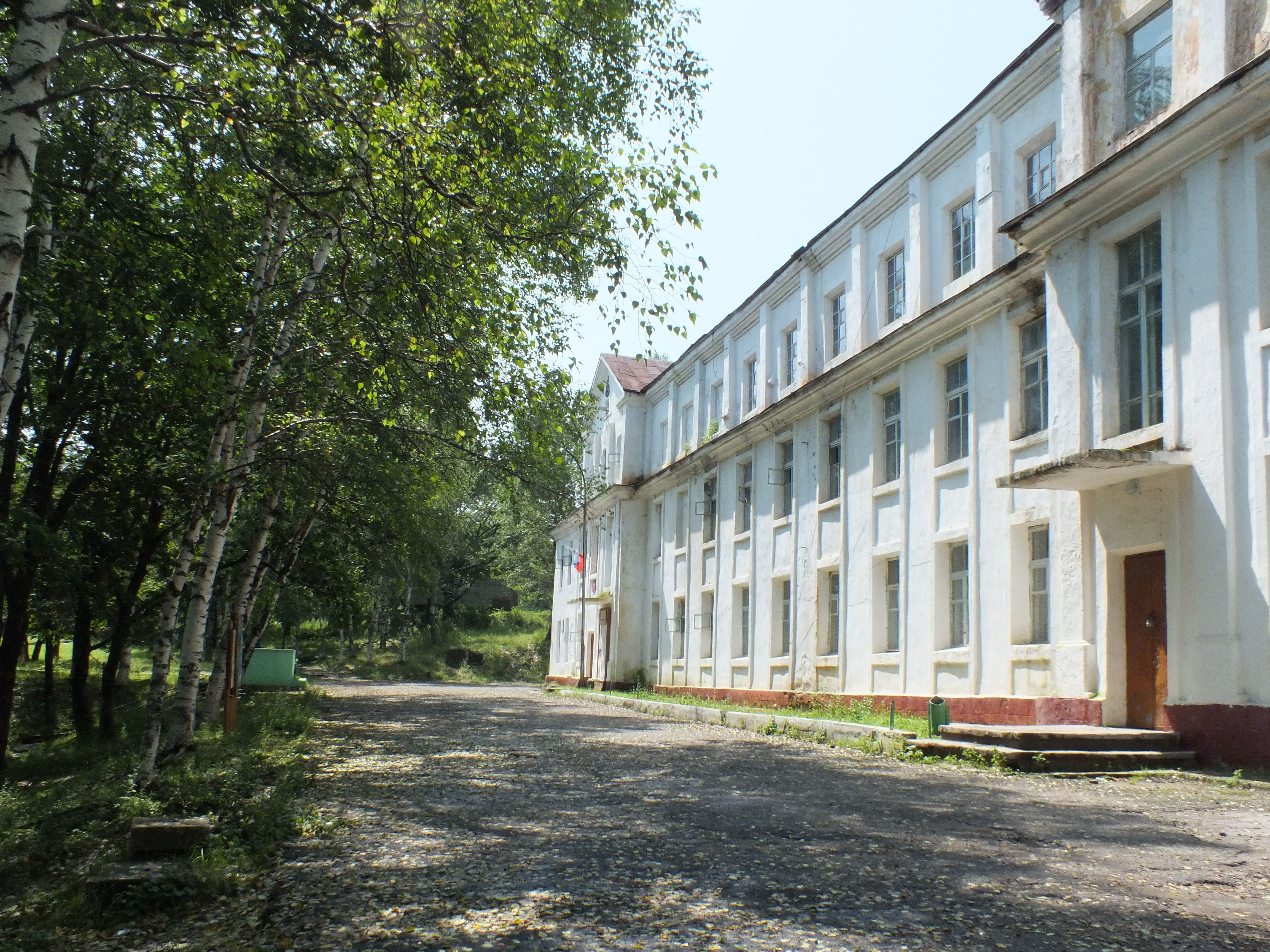 Vladimir Bay